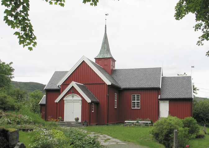 Bjugn church. This church was built in 1956 after the old one burnt down in 1952. There has been a church here since 1637.